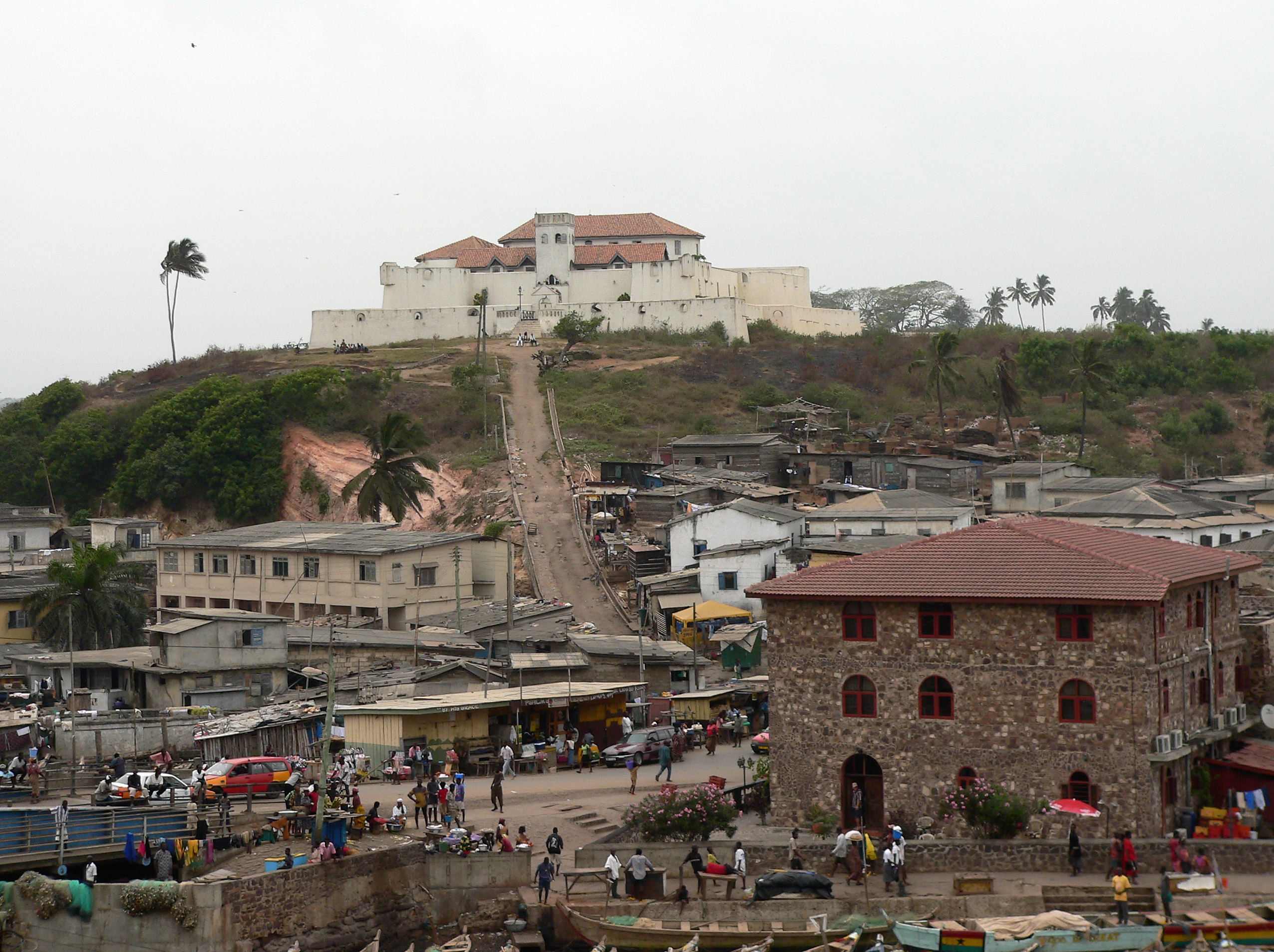 Fort Conraadsburg in Elmina. Picture taken from Elmina castle.